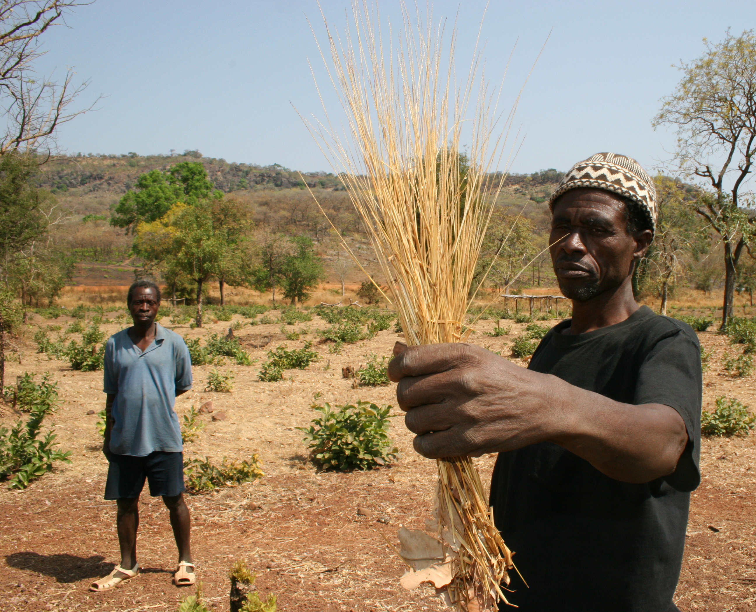 "Village chief of Boula Téné, [Senegal] Theodore Mada Keita, holds up the fonio grain [White fonio (Digitaria exilis)] that helps feed his family in southern Senegal. With USAID support, his community is working to better process and sell this nutritious grain, which is increasingly in demand in specialty markets overseas." Original USAID caption.. According to original article, Boula Tene is a Bedik village of 200 in the southeast of Senegal, Tambacounda region.